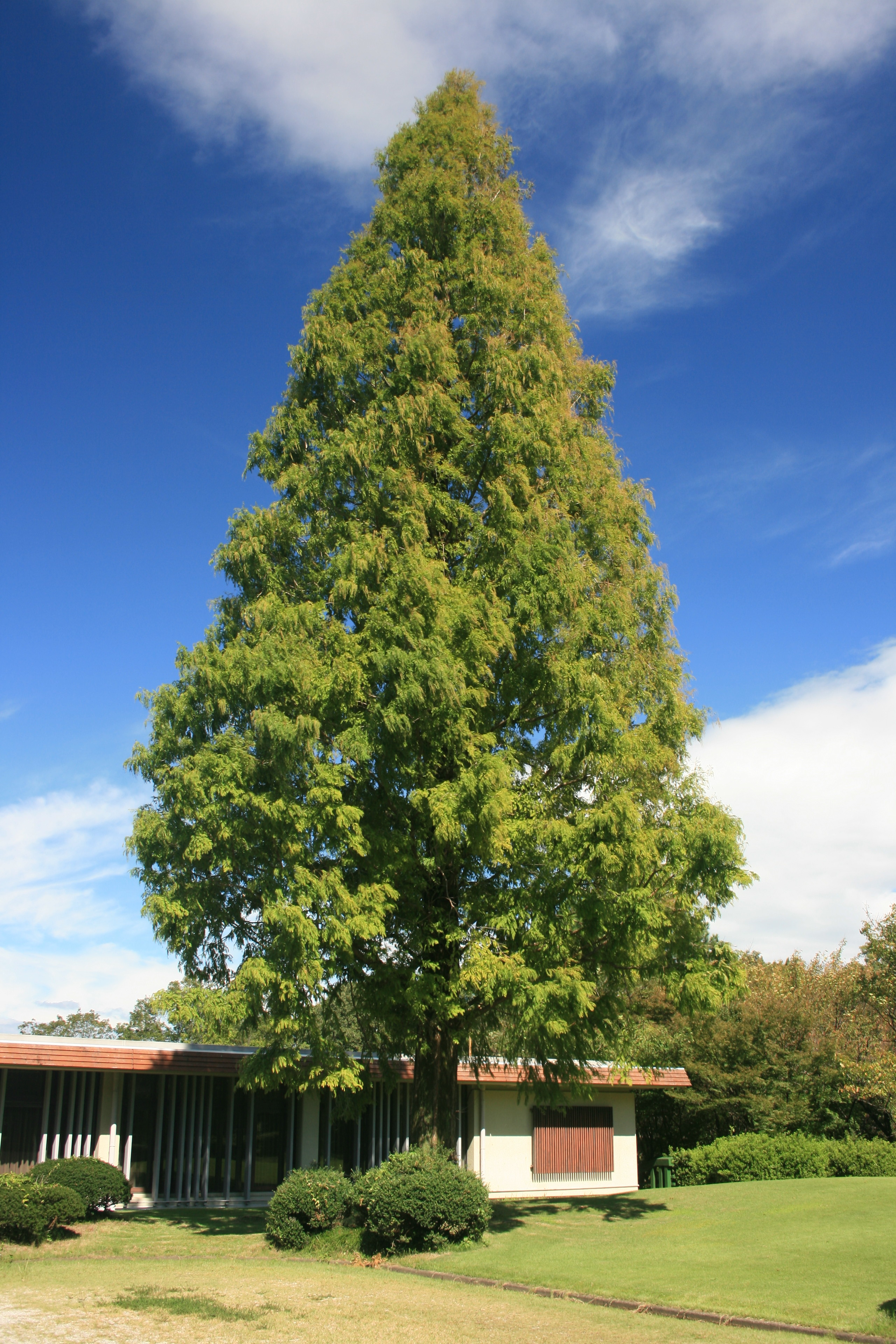 Metasequoia glyptostroboides in Forest park of Aichi Prefecture